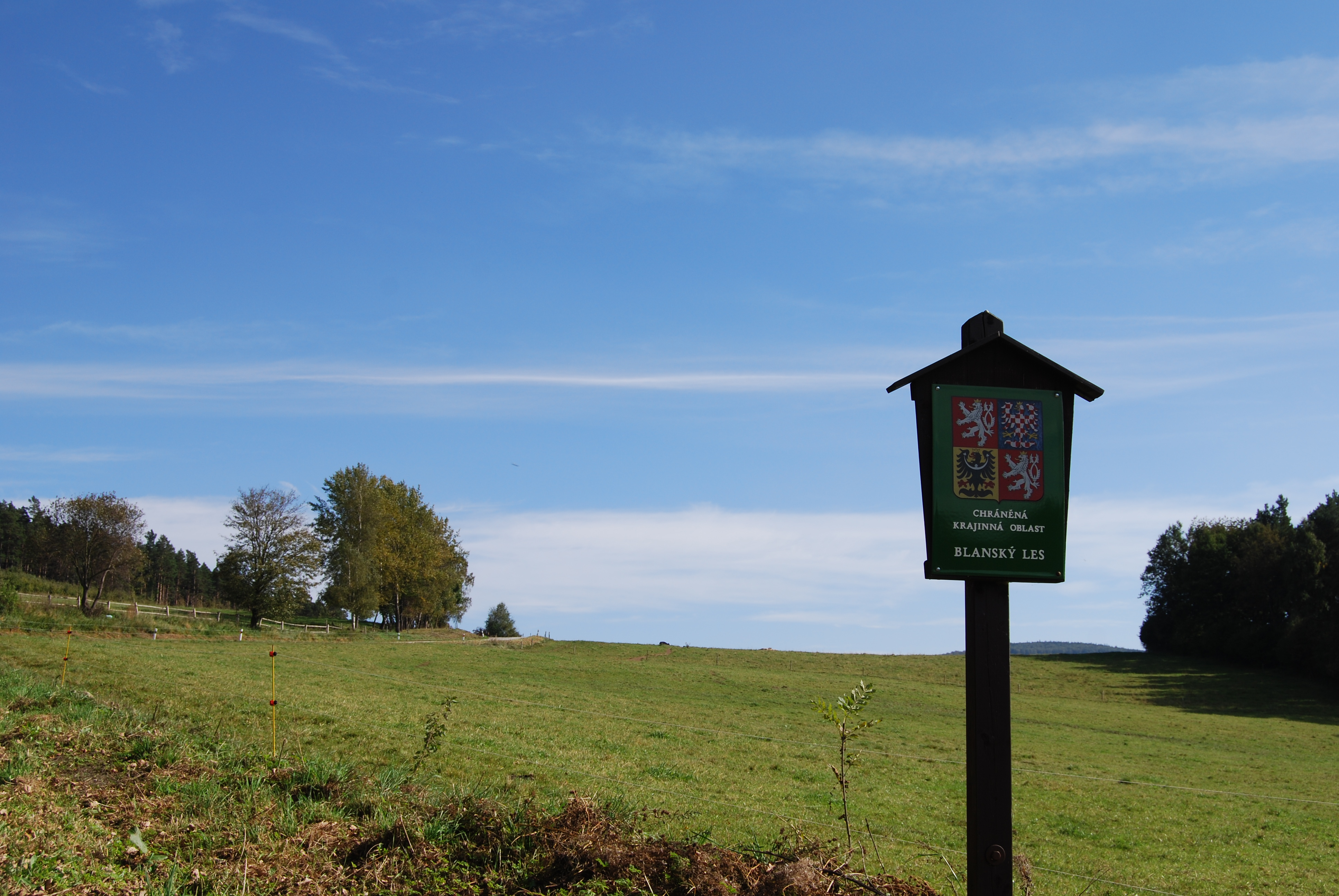 Protect nature area "Blanský les", Czech Republic.